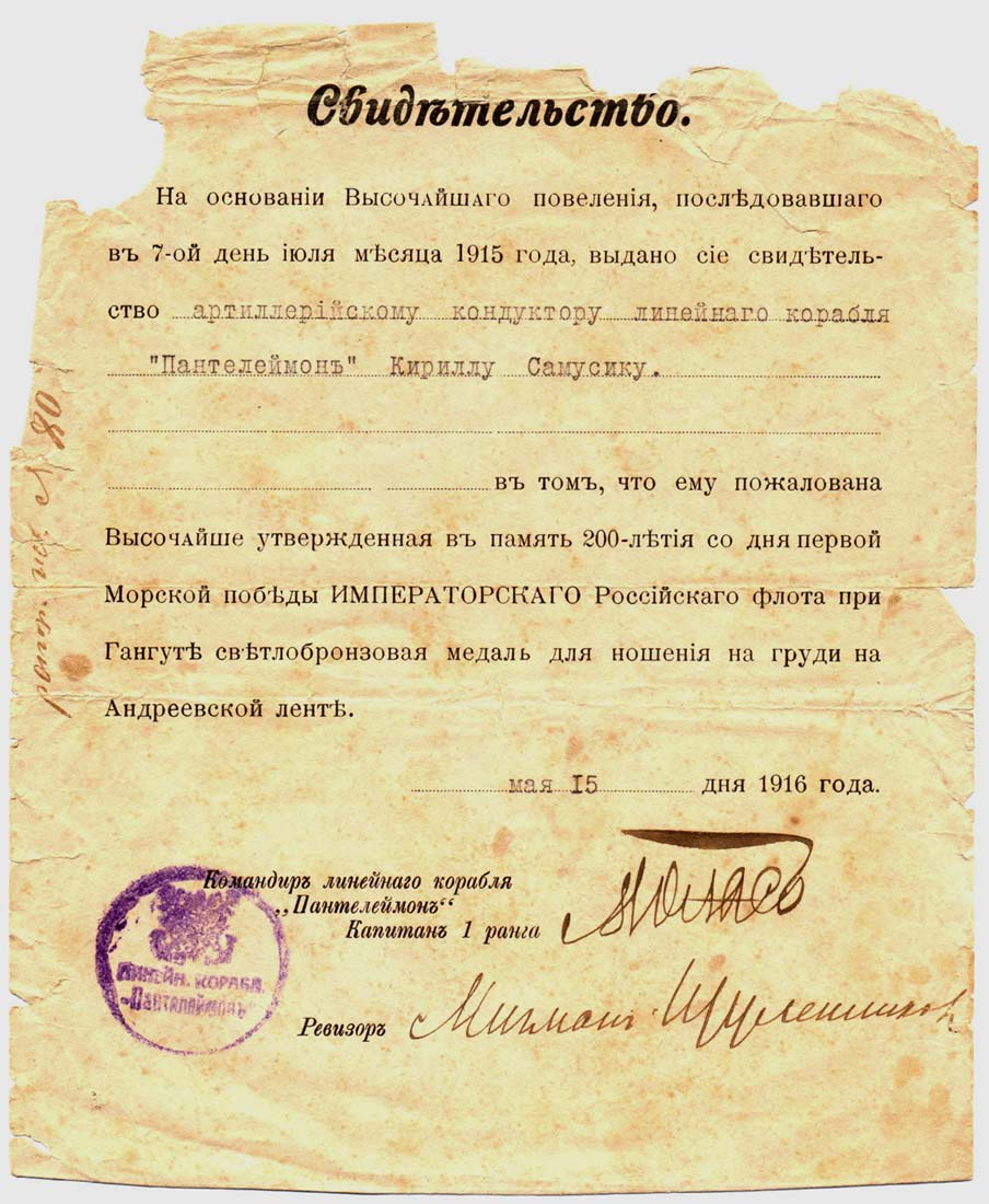 Certificate of medal "In memory of 200th anniversary of battle of Gangut"